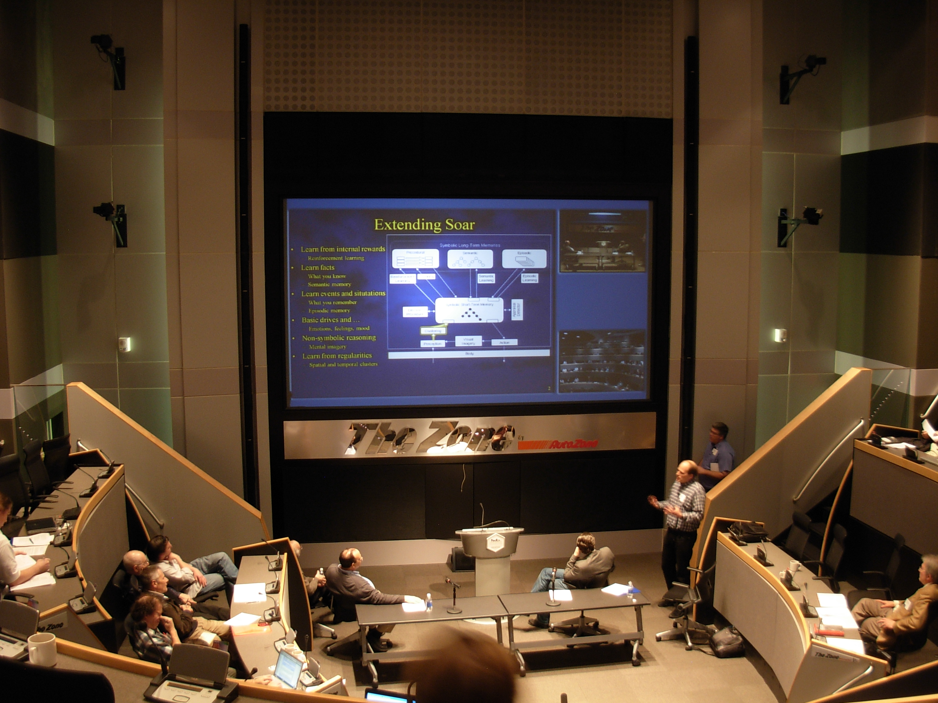 Extending the Soar Cognitive Architecture by John Laird of University of Michigan Technical Session II: Architecture of AGI Systems at the The First Conference on Artificial General Intelligence (AGI-08) This room is The Zone, at the FedEx Institute of Technology, University of Memphis. It was a very good venue for this conference. Artificial General Intelligence (AGI) research focuses on the original and ultimate goal of AI -- to create intelligence as a whole, by exploring all available paths, including theoretical and experimental computer science, cognitive science, neuroscience, and innovative interdisciplinary methodologies. AGI is also called Strong AI in the AI community.